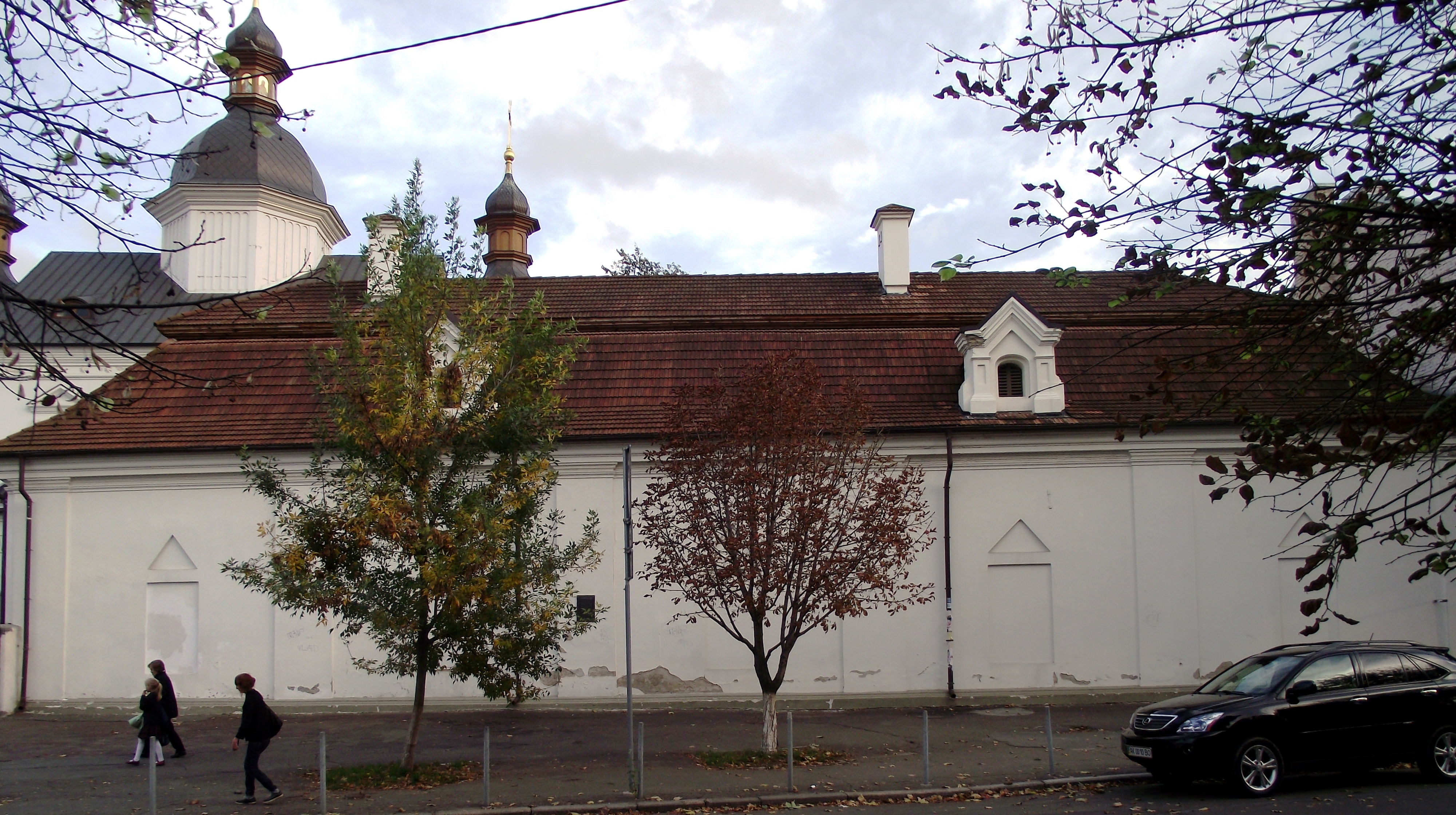 Stable with cells. Outside facade. The XVI-XVIII centuries